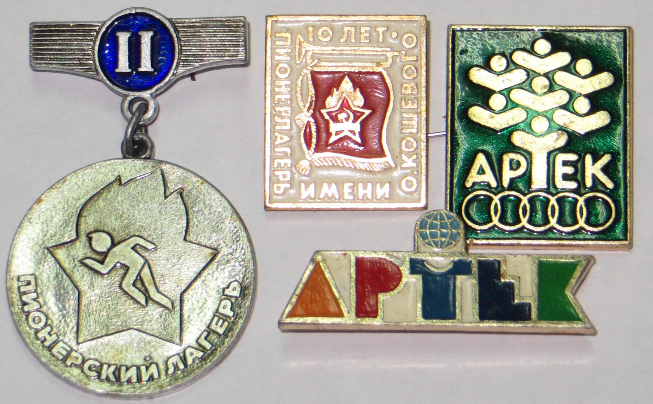 Pioneer badges, 1970-1990s.